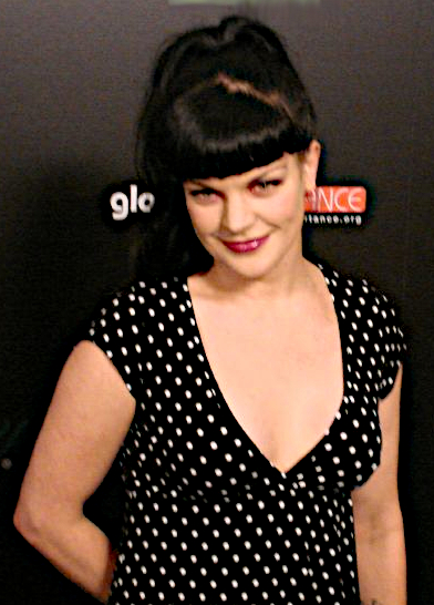 Pauley Perrette at the KeyClub, Los Angeles, 2/10/07. Photo by Ames Friedman. Cropped.